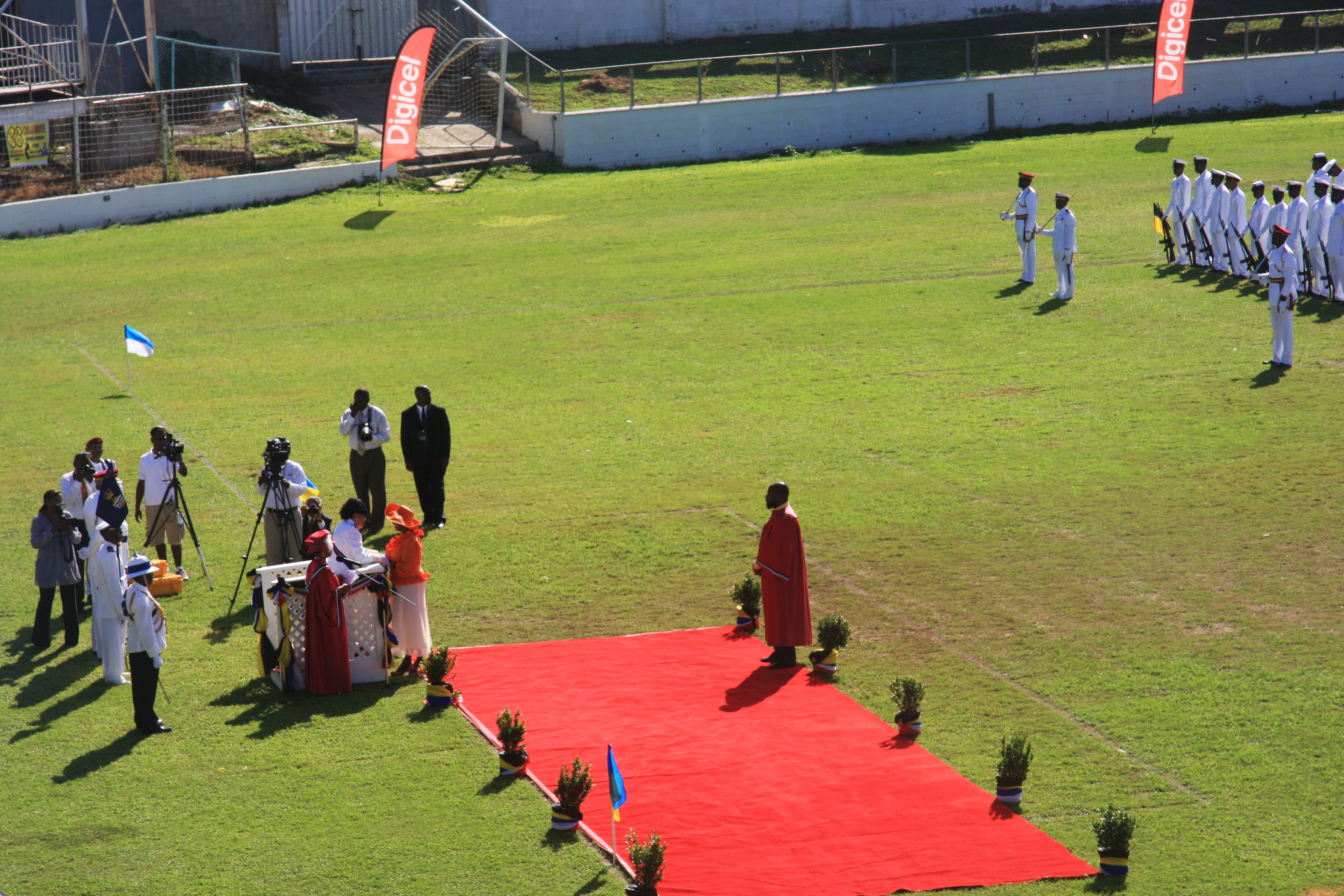 National Award, Commander of the Most Illustrious Order of Merit (CM) given by the Governor General of Antigua and Barbuda, Dame Louise Lake Tac Sky View.